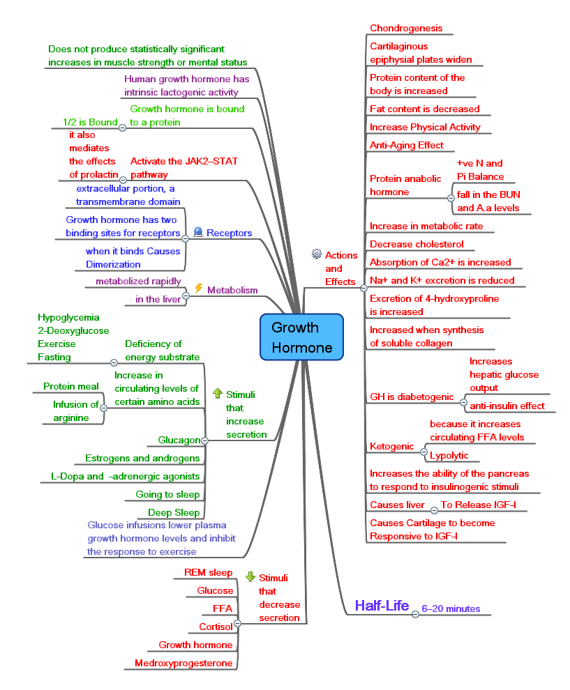 Mind map showing a Summary of Growth Hormone Physiology